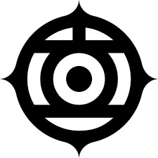 Former Hitachi Logo Combination of Hi (日) and Tachi (立)